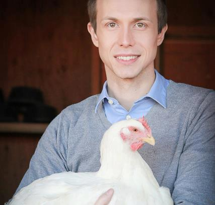 Nathan Runkle, founder and executive director of Mercy For Animals, holds a hen rescued from a factory farm.